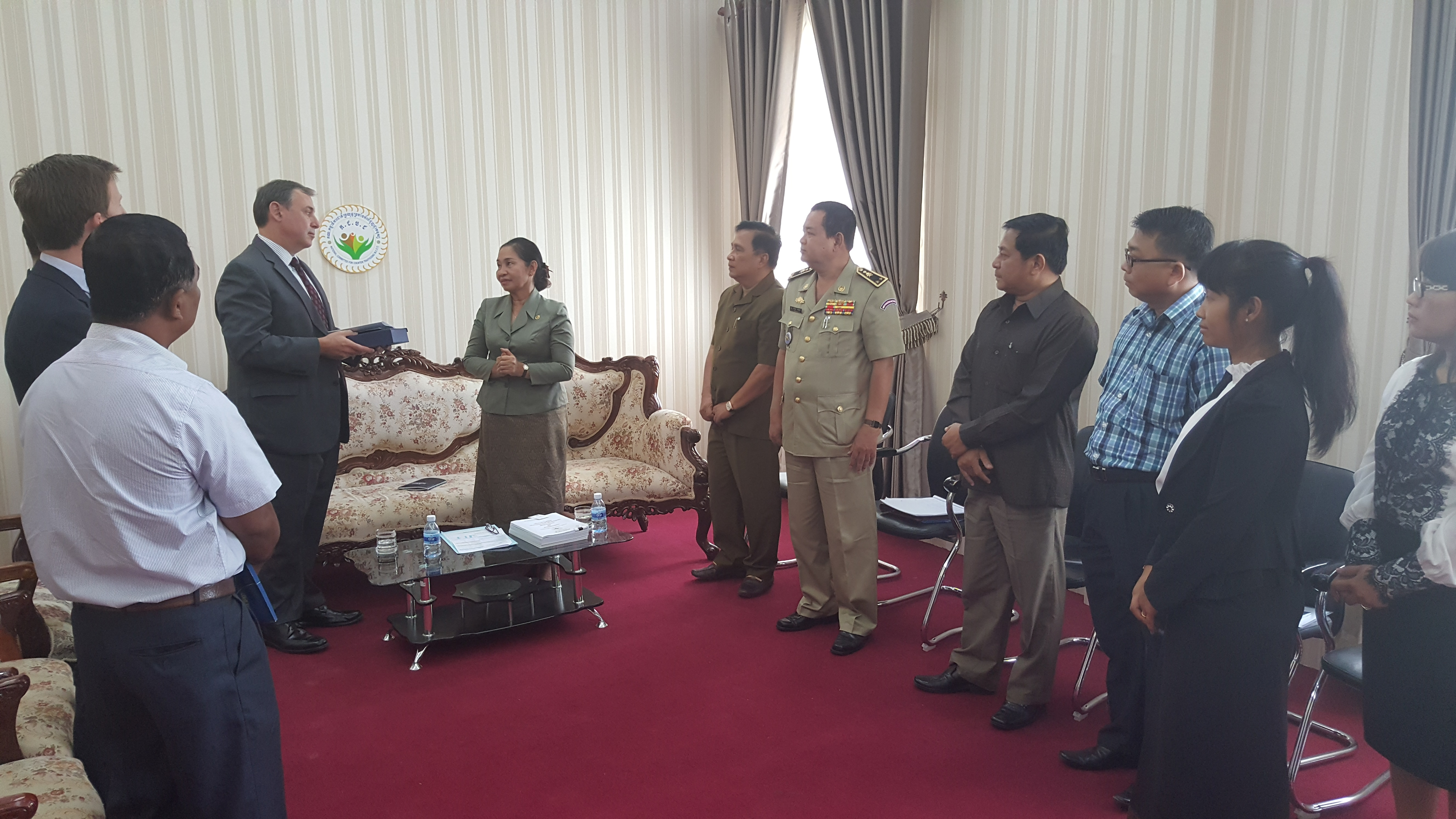 Ambassador William A. Heidt introduce himself to Chou Bun Eng